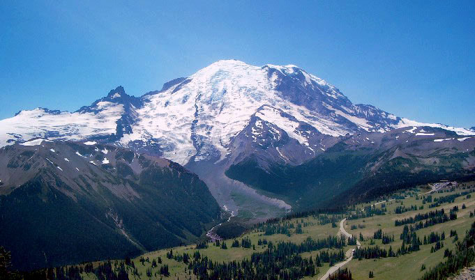 Mount Rainier (a Stratovolcano), as viewed from the Sourdough Ridge trail.